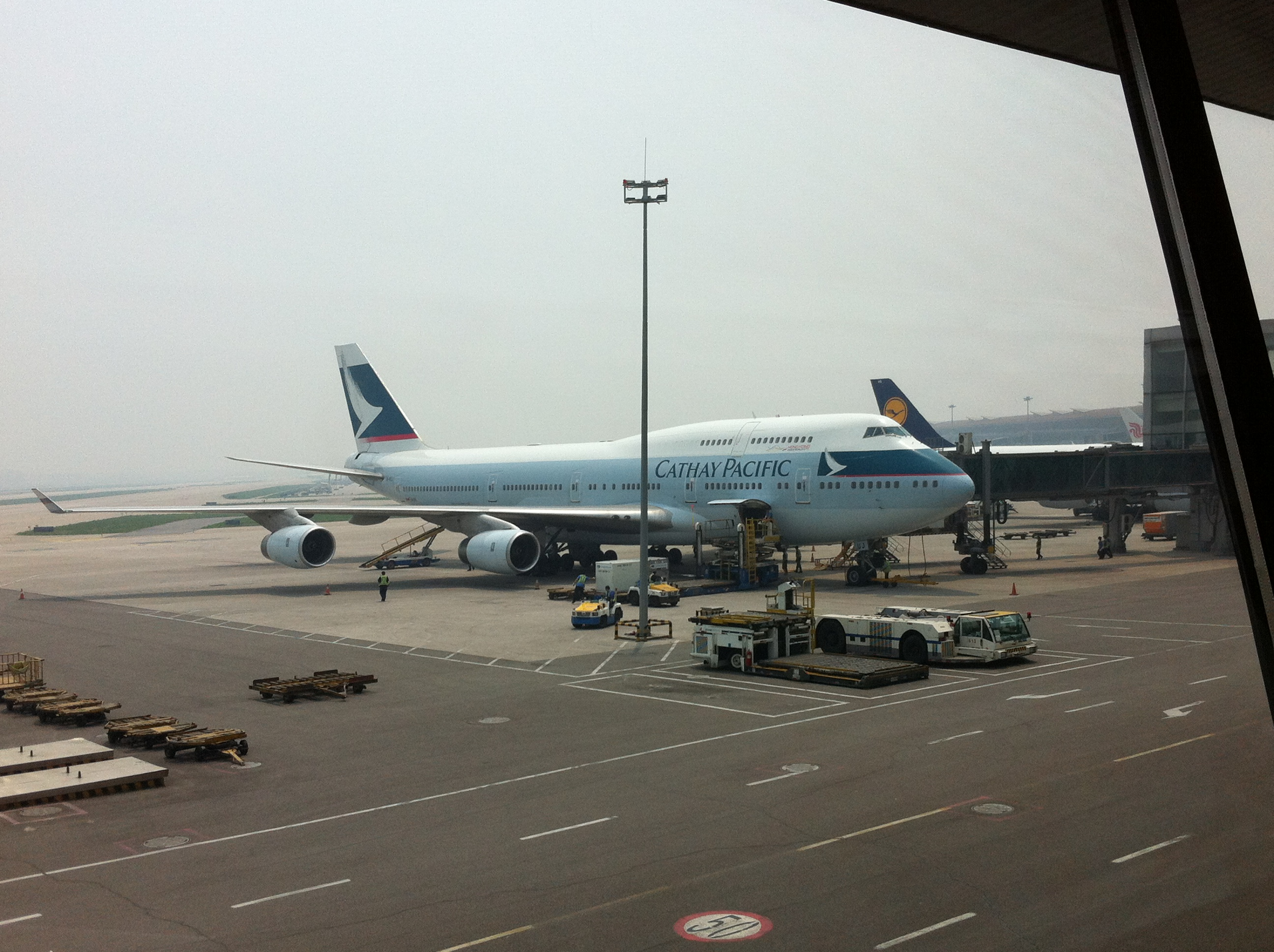 Taken at Beijing Capital International Airport - Gate E14. Cathay Pacific may use a Boeing 747-400 on flights between Hong Kong and Beijing, this time B-HUJ, Cathay's newest 744PAX which was built in 1995, came to Beijing as Cathay 390! A Lufthansa A346 to Munich can also be seen. Note: B-HUJ is the very 747 that flew CX543, Cathay's last scheduled 747 flight, on 1 October 2016 from Tokyo to HK, but I still doubt if B-HUJ was the very aircraft that flew "Polar One", the first flight to arrive Chek Lap Kok on 6 July 1998.中文（中国大陆）: 国泰航空有时会在京港航线上使用波音747-400，这架B-HUJ就是其中之一，在6月13日执行了CX390/391航班，而该班次原为港龙航空的KA990/991，因客流量过大而转交国泰运营。2016年10月1日补充：该机为国泰747末班机的本务机